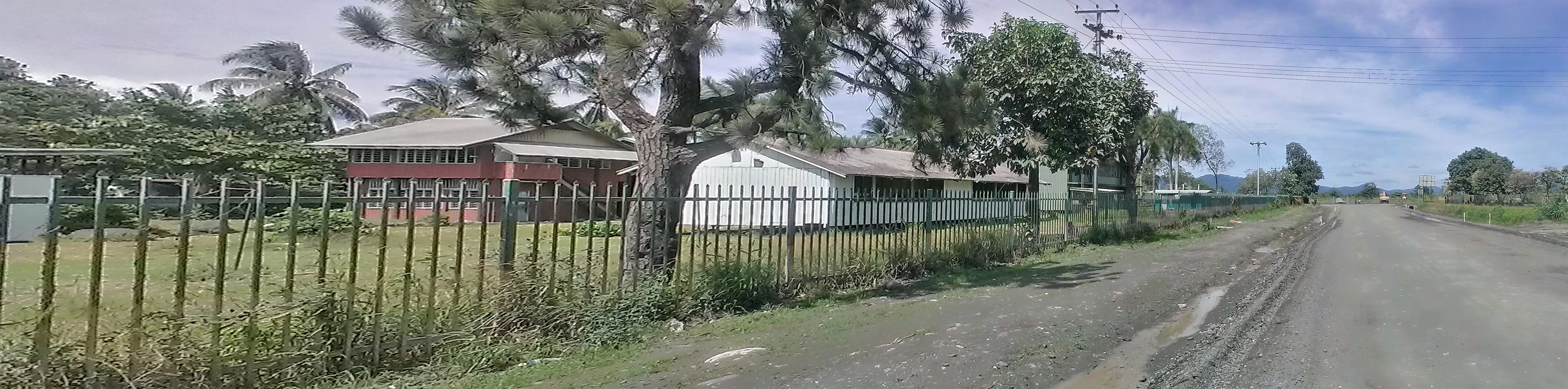 Panoramic photo of school opposite Tent City Police post